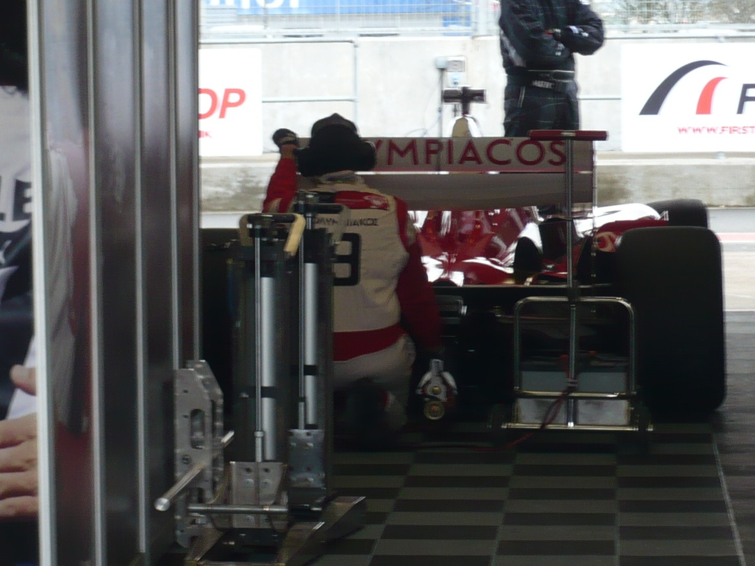 The Olympiacos CFP Superleague Formula car. Photo taken by me at Silverstone Circuit during its 2010 SF round.